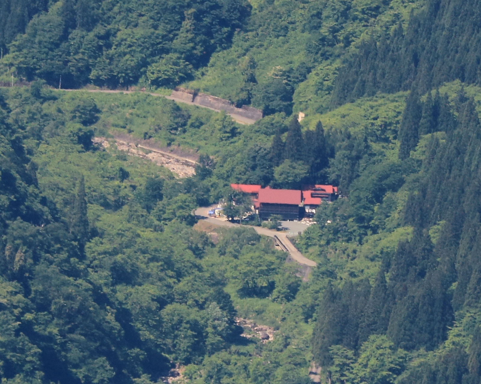 Hatogayu Onsen seen from Mount Sannomine in Kamiuchinami, Ōno, Fukui prefecture, Japan.